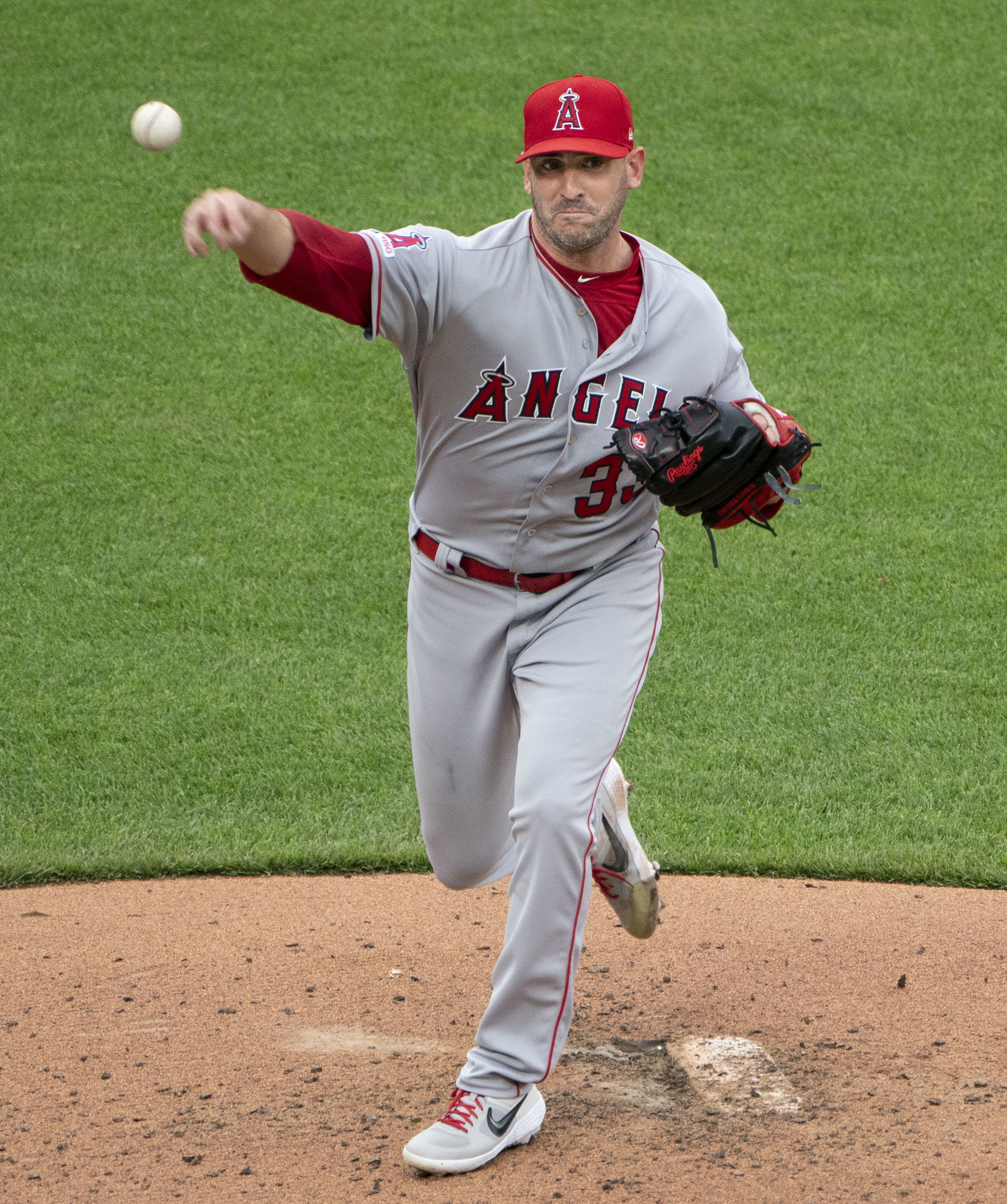 Harvey pitching for the Angels in 2019 against the Orioles